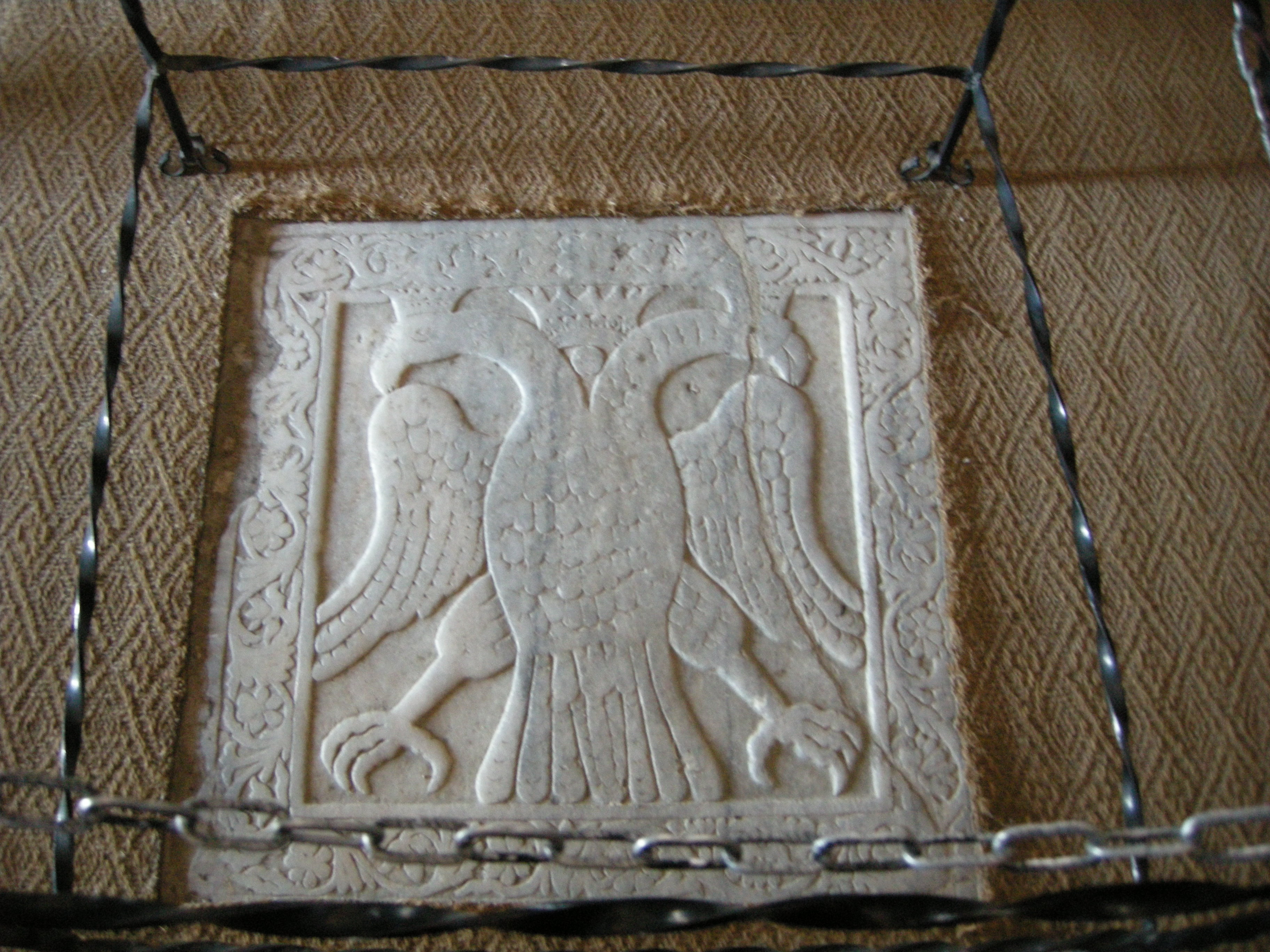 Metropolis of Mystras, inside, imperial eagle